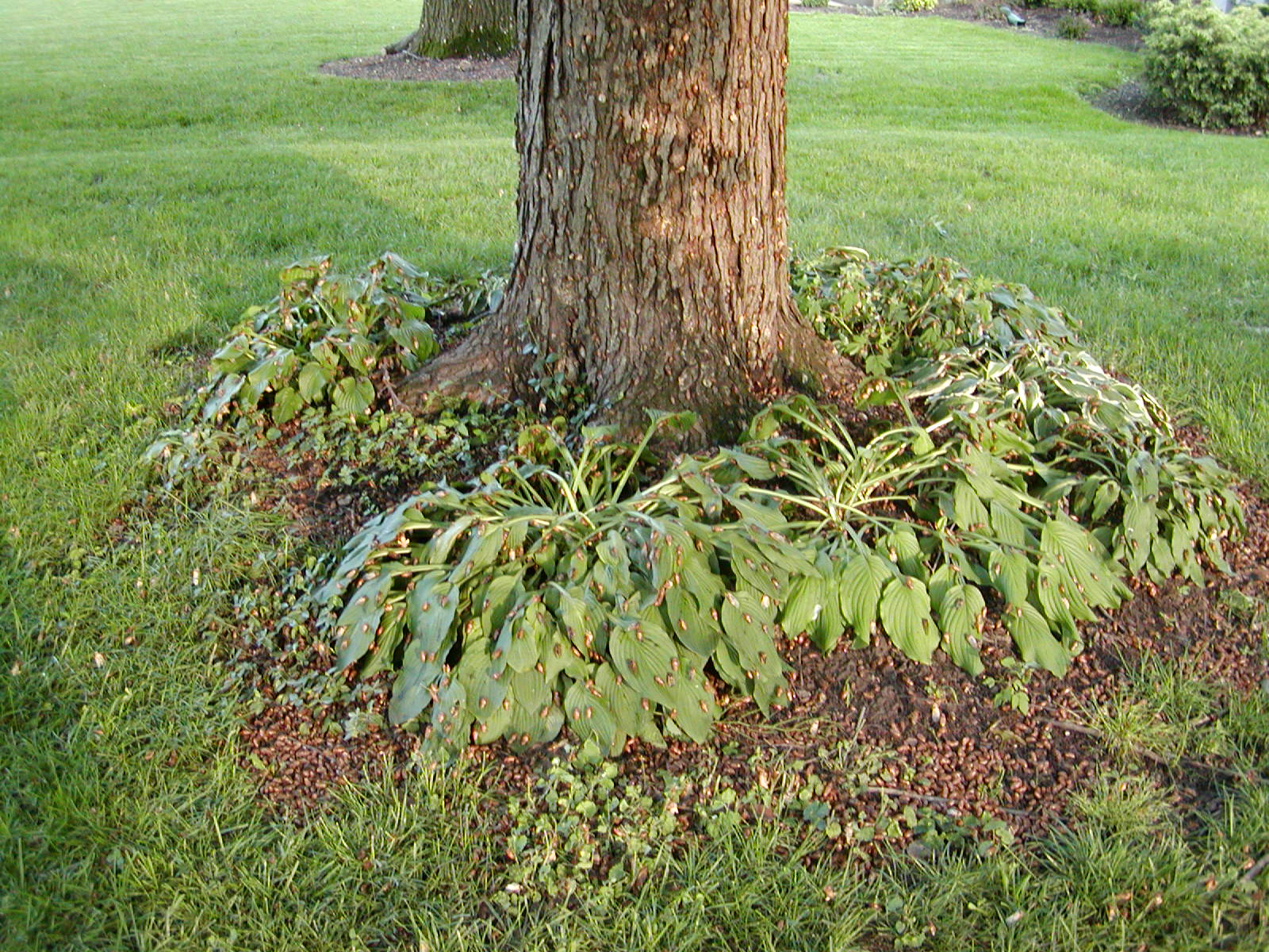 Emergent swarm of 17 year cicada in 2004.